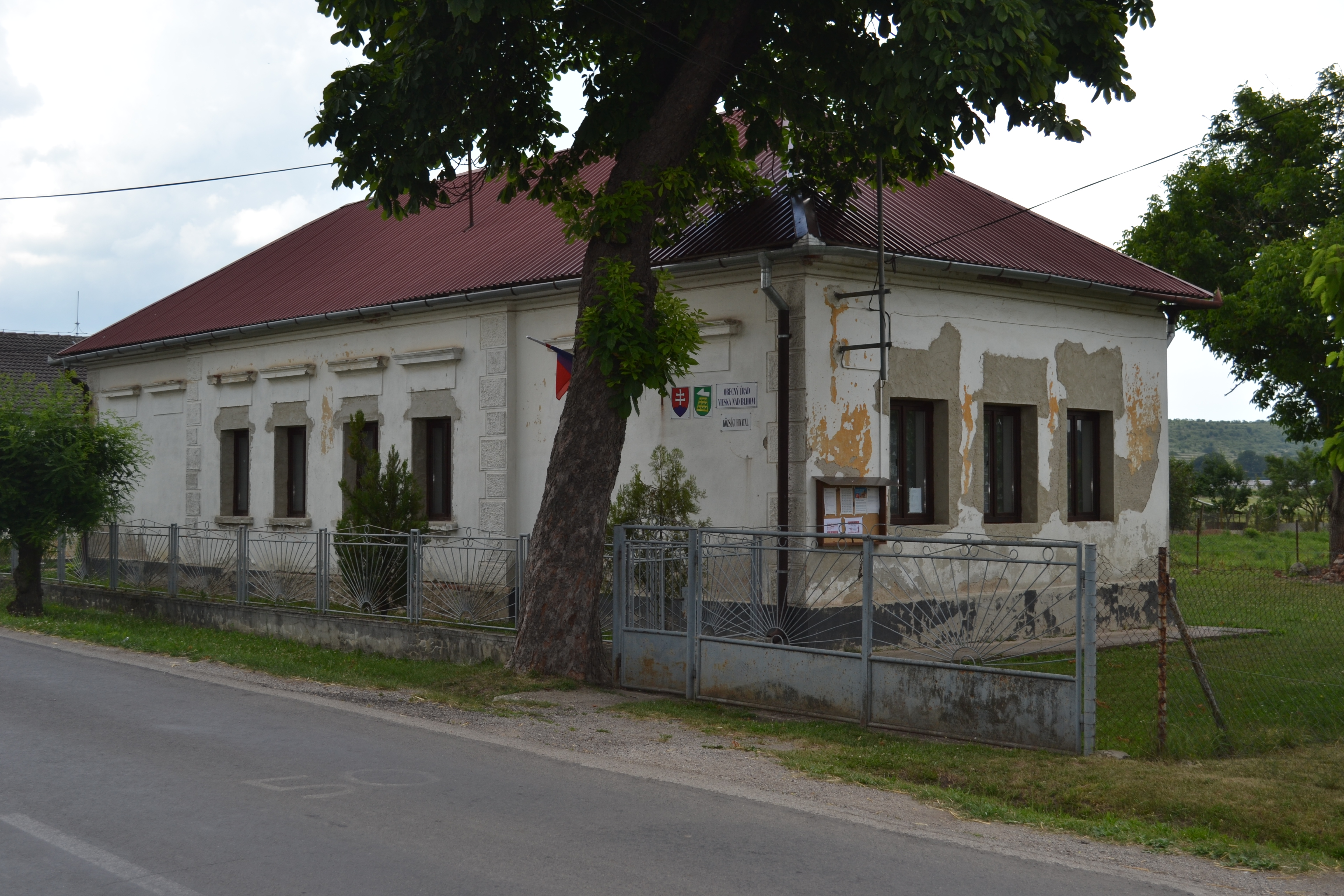 Municipal Office in the village Vieska nad BlhomSlovenčina: Obecný úrad vo Vieske nad Blhom